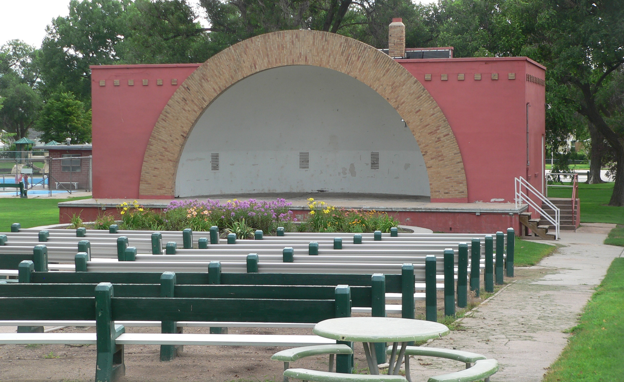 Bandshell in Grant City Park in Grant, Nebraska; seen from the southwest. The park was constructed by the WPA from 1935 to 1939. It is listed in the National Register of Historic Places.